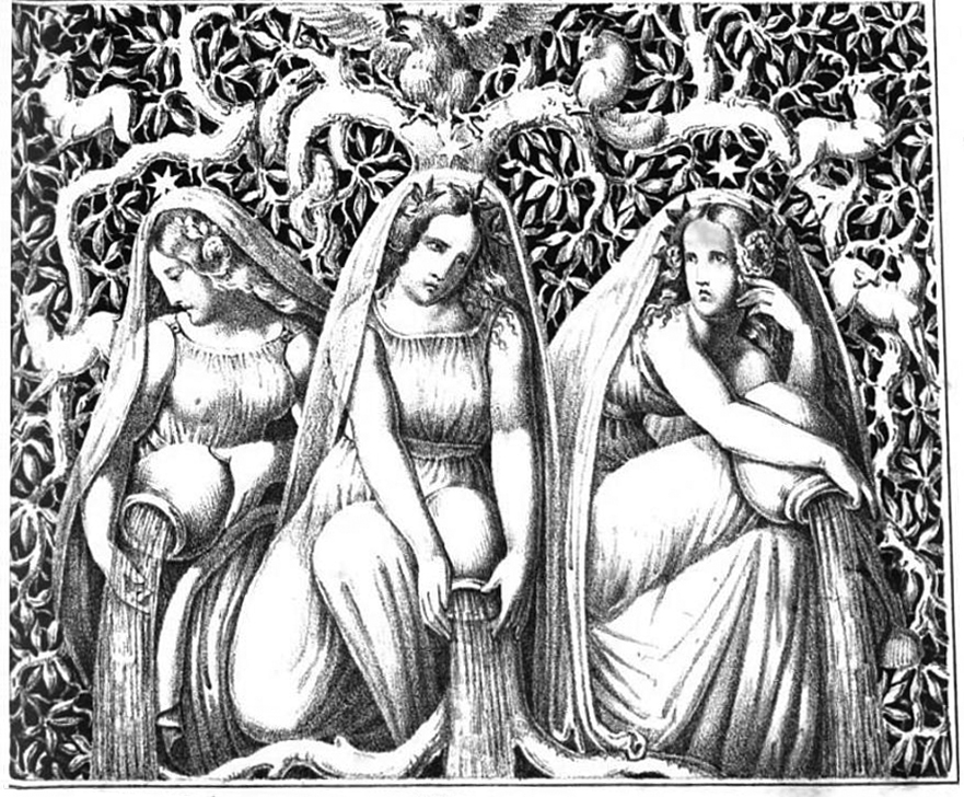 The caption for this illustration reads "Norns". The artist is uncredited. Please replace with a higher quality version if possible. This version was taken from a low quality scan found in a PDF version of the source.